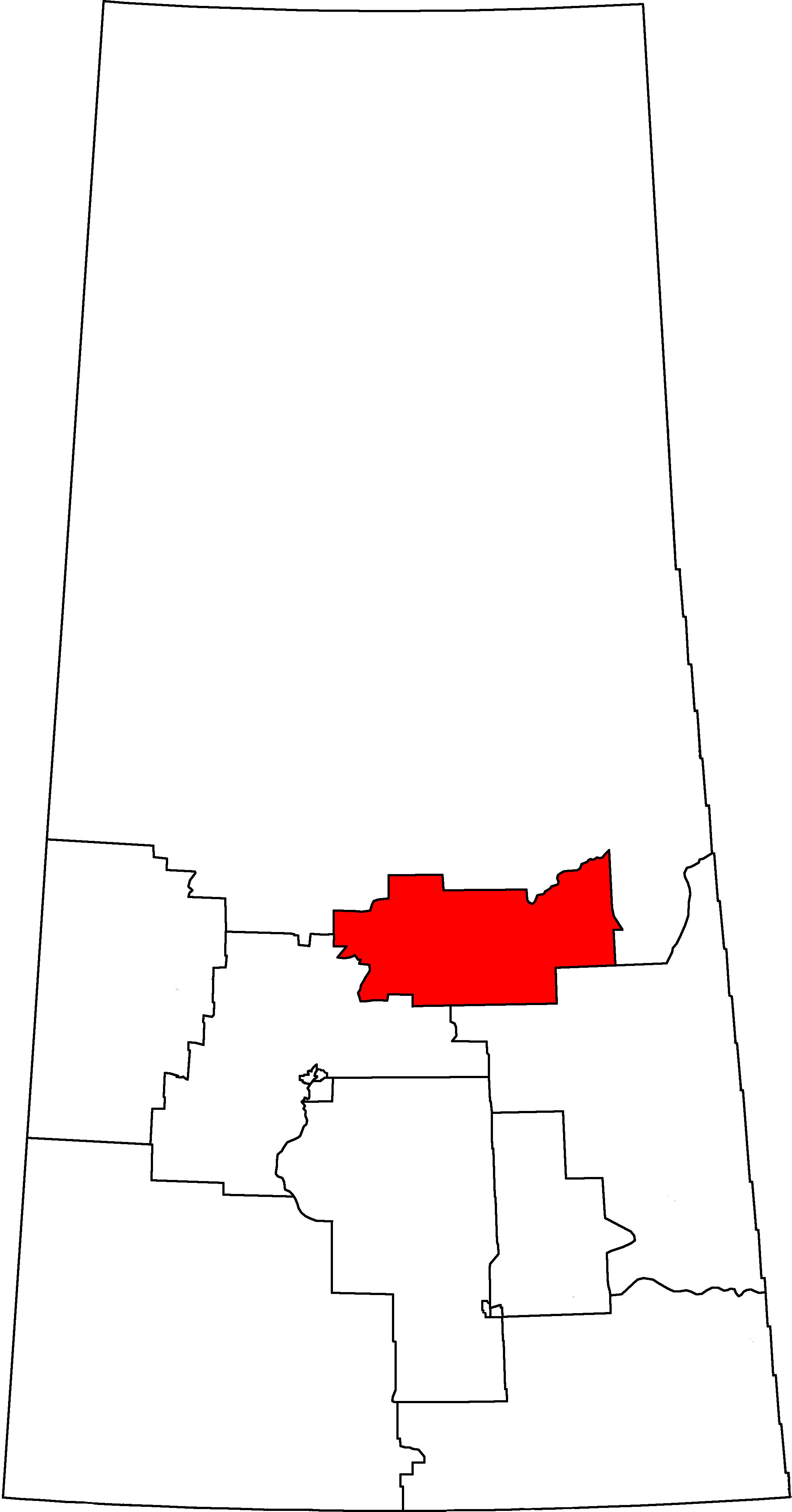 Federal Electoral District in Saskatchewan, Canada as of the 2013 Representation Order.